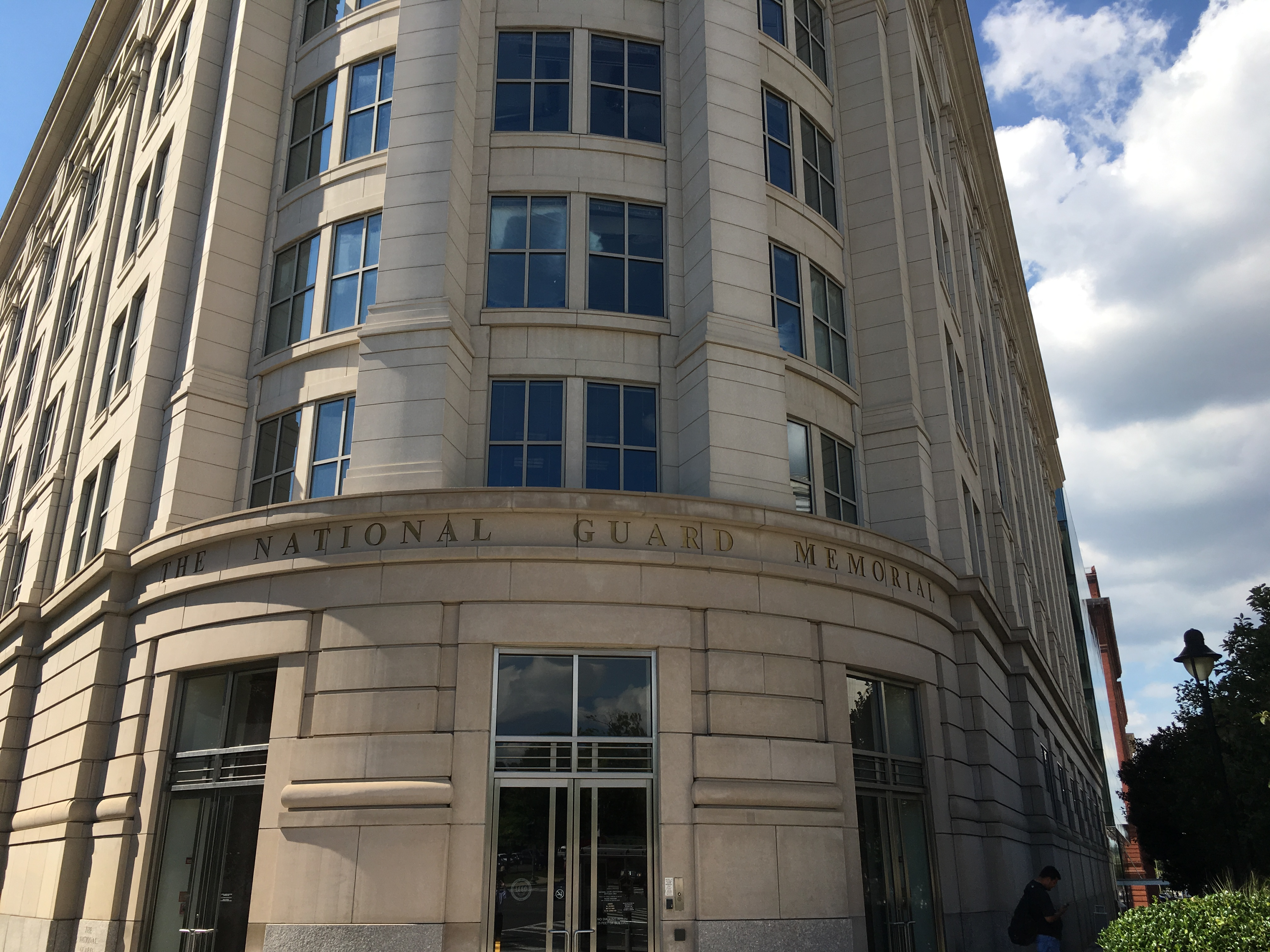 US National Guard Memorial Museum at Massachusetts Avenue NW in Washington, DC.